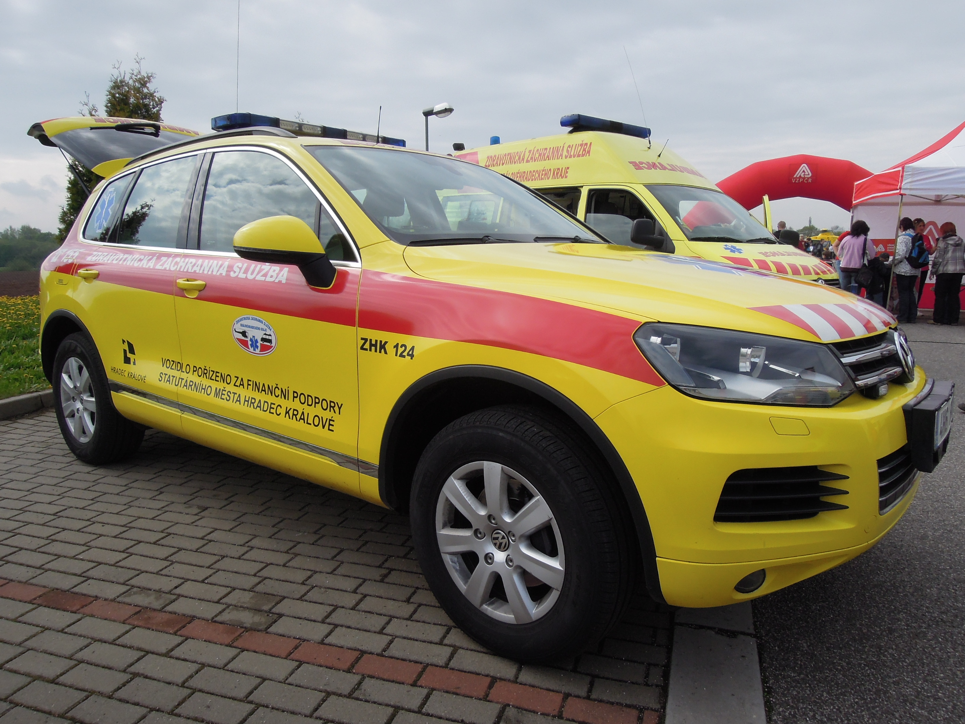 First responder Volkswagen Touareg 2nd generation of Zdravotnická záchranná služba Královéhradeckého kraje, Czech Republic